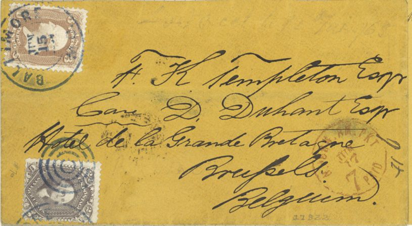 US Postage stamps on cover, 1861 issues The 3-cent Washington 1861 issue was commonly used by Union soldiers during the American Civil War, The 3-cent issue is the most frequently found on Civil War era mail.